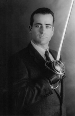 Miguel Andrade Gomes, Fencing Master.